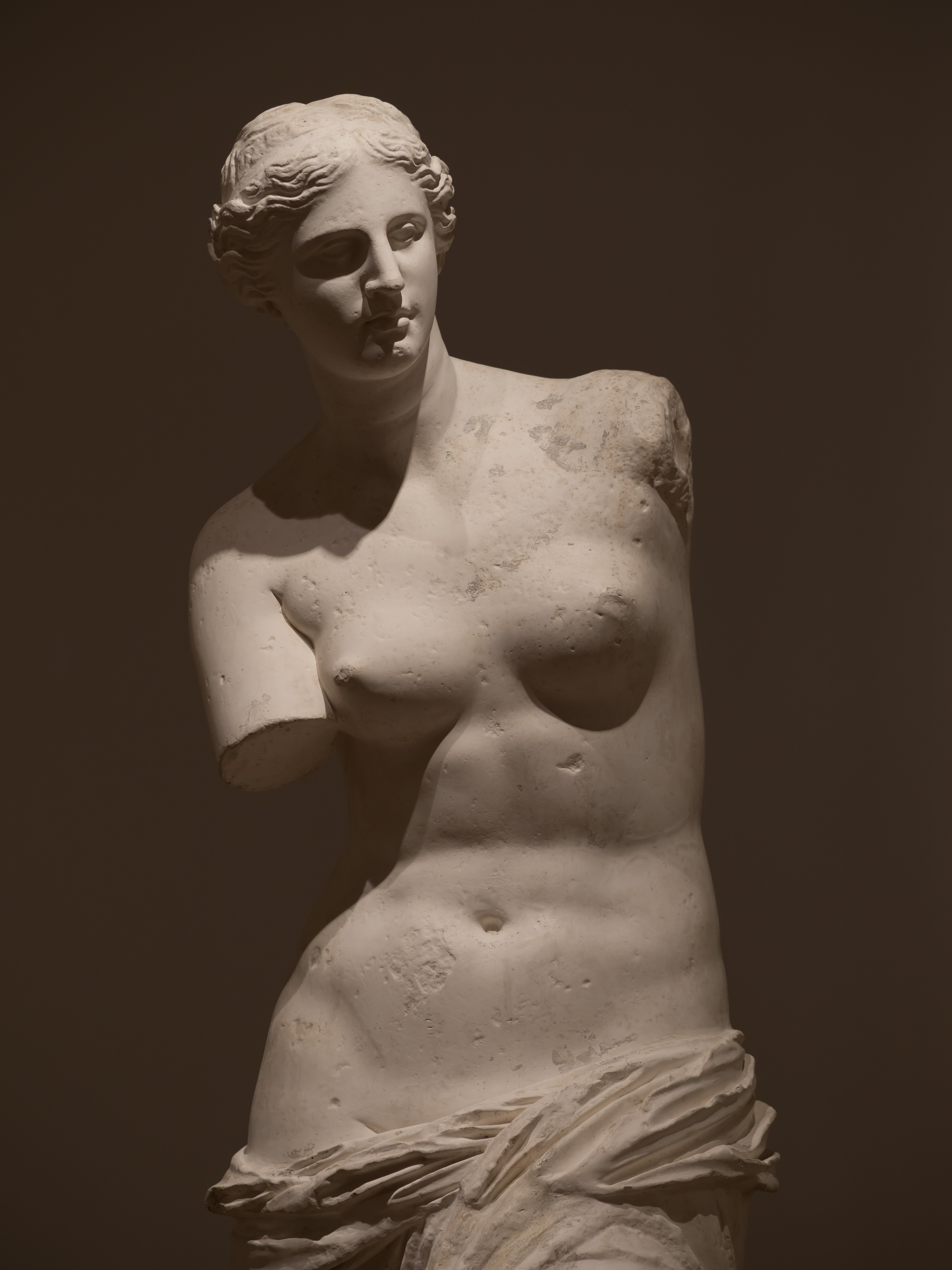 Venus de Milo (1927 replica). Original made 130−100 B.C. Plaster, 216 x 63 x 67 cm. Slovenian National Gallery (NG P 923) This photograph was taken with an Olympus E-P5